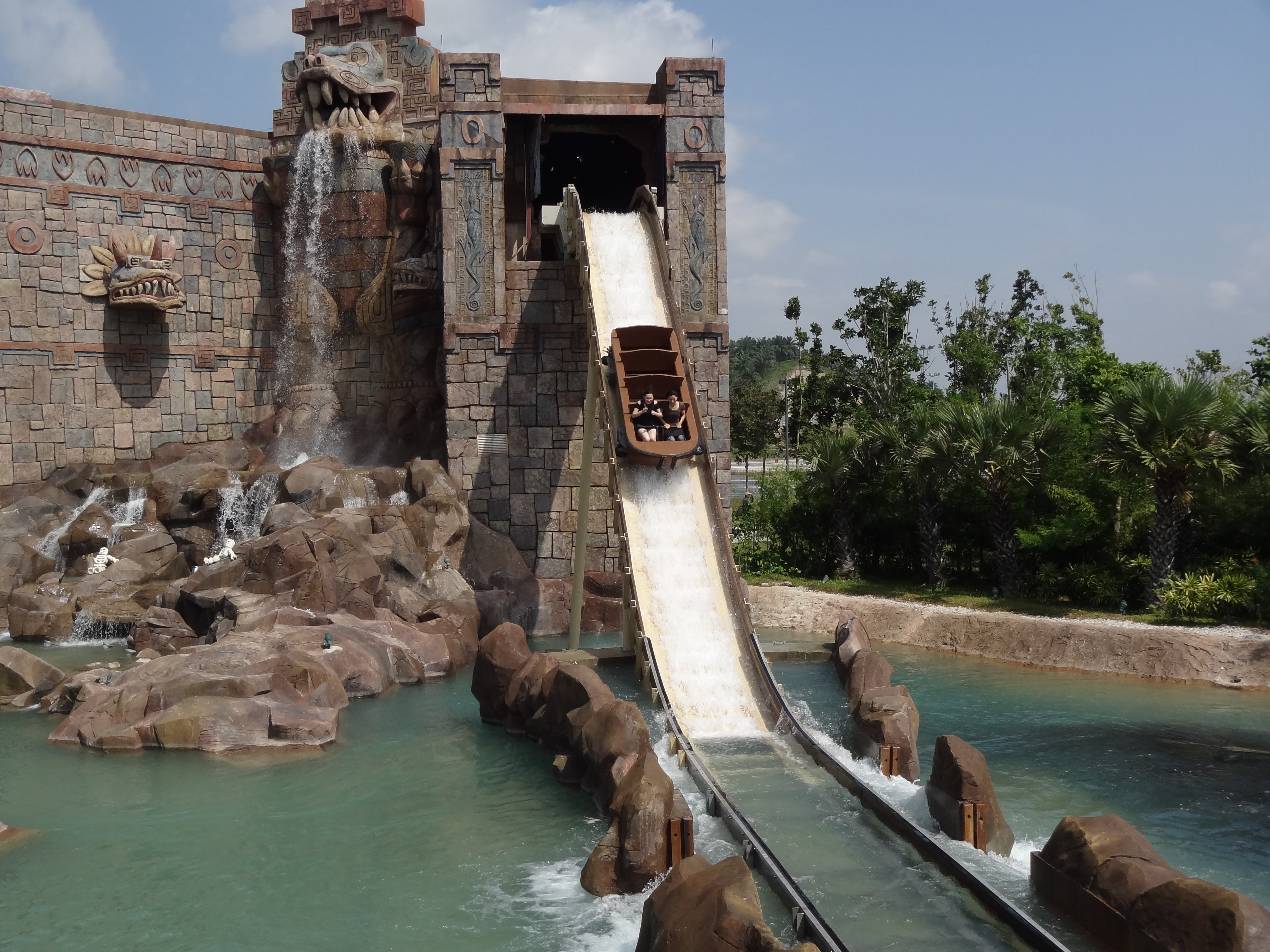 Dino Island at Legoland Malaysia